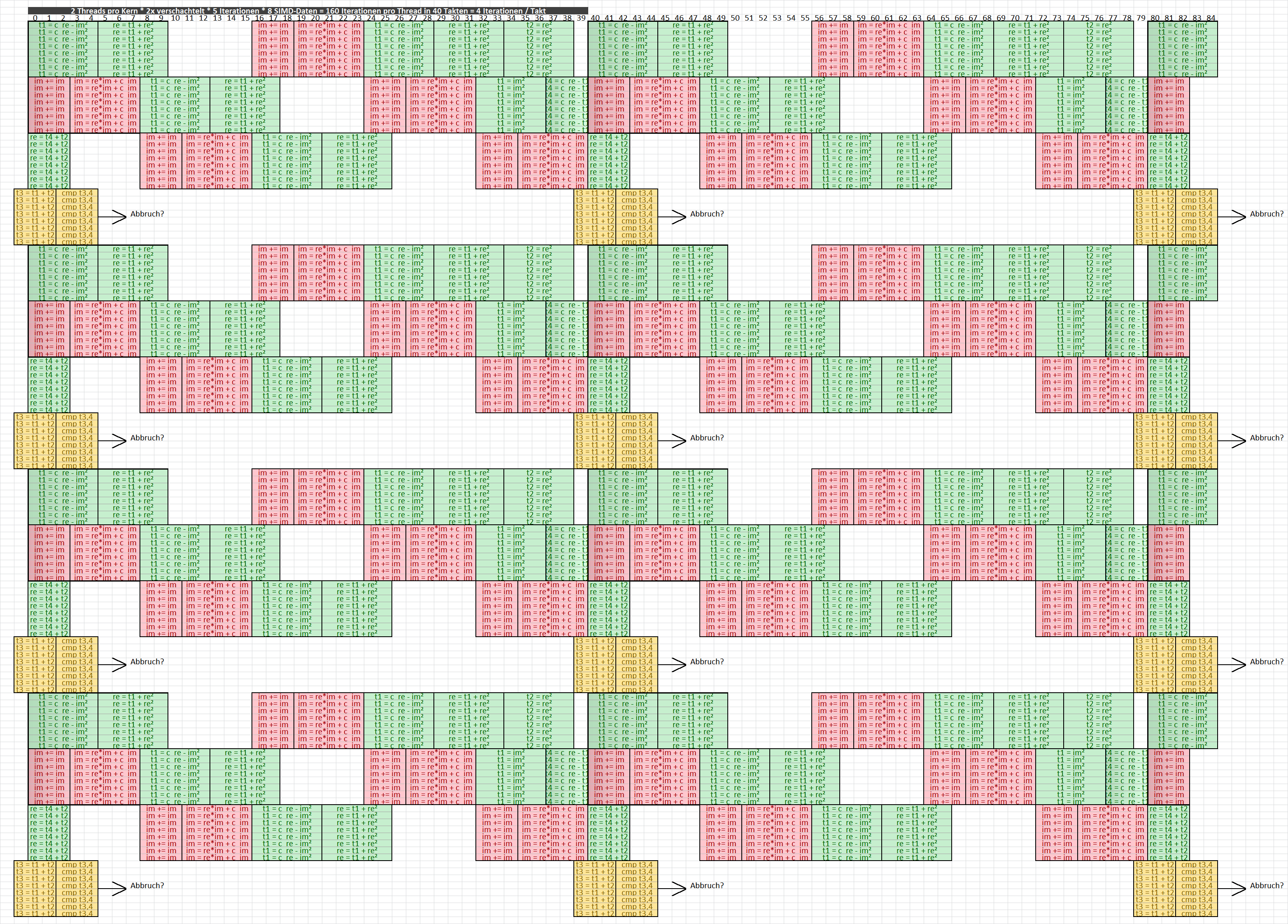 Possible Parallelization of the Mandelbrot Set Calculation within a Haswell Core i7 per Core. You can see that up to 128 calculation (in total 16 instructions divided on two threads) can be executed per Core. On a Haswell Core i7-5960X this can be up to 1024 parallel calculations per CPU, on a Haswell Xeon E7-8890 v3 up to 2304 parallel calculations. Modern CPUs are far beyond from being non-parallel.